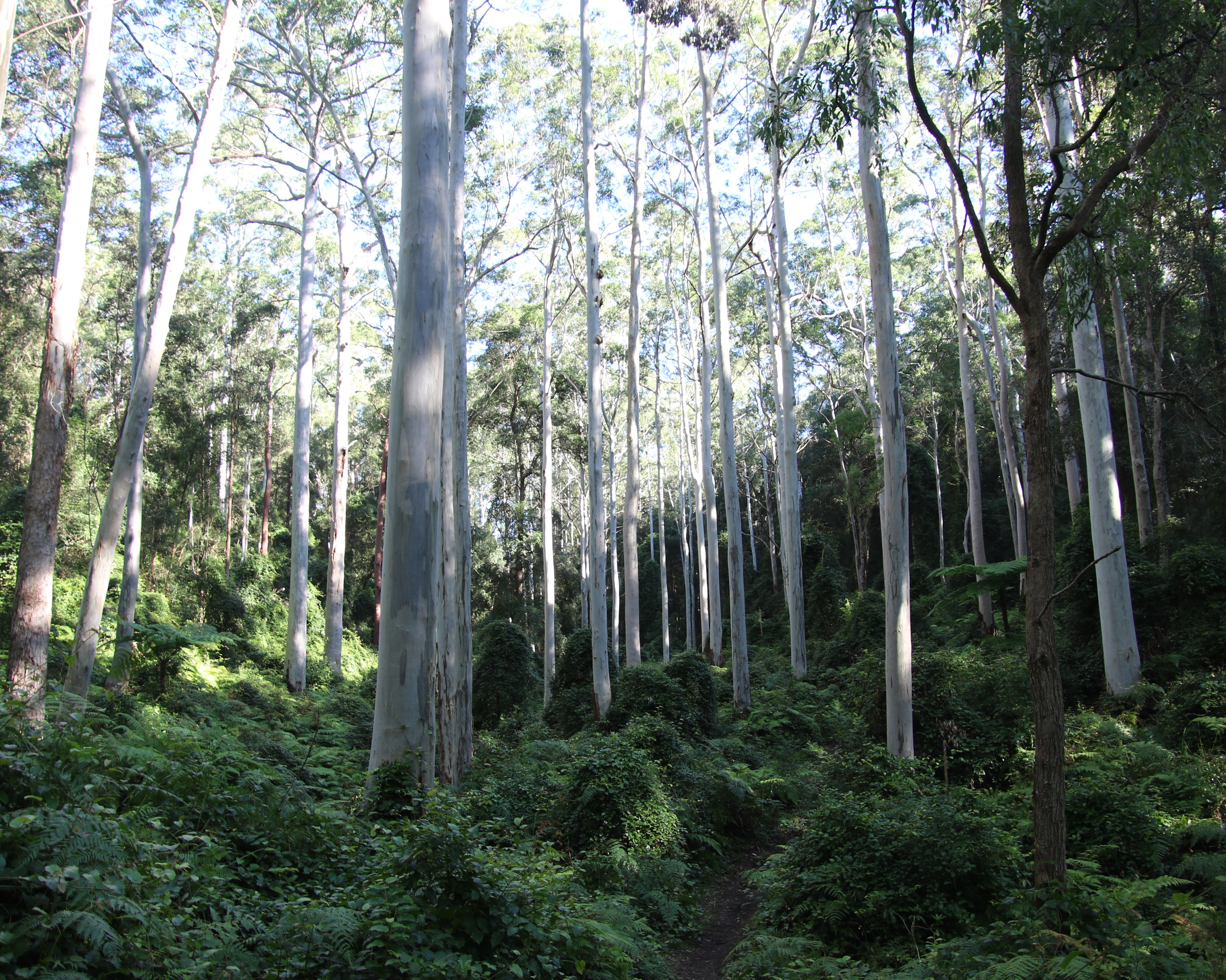 Sydney Blue Gum High Forest on volcanic soils. Eucalyptus saligna, tallest tree measured was 52 metres